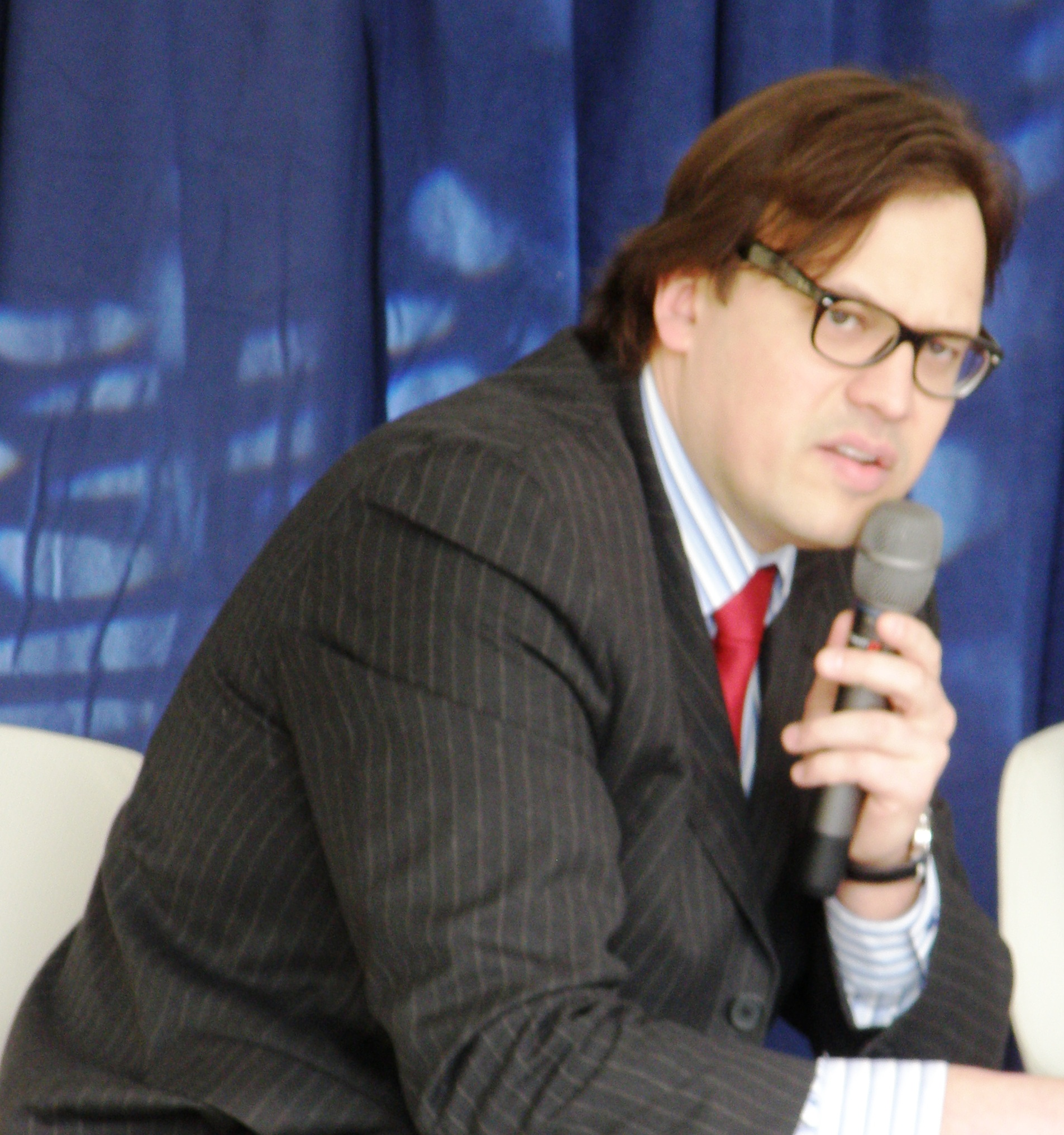 Eerik Marmei on "NATO day" in Tallinn Freedom Square, April 16 2010.